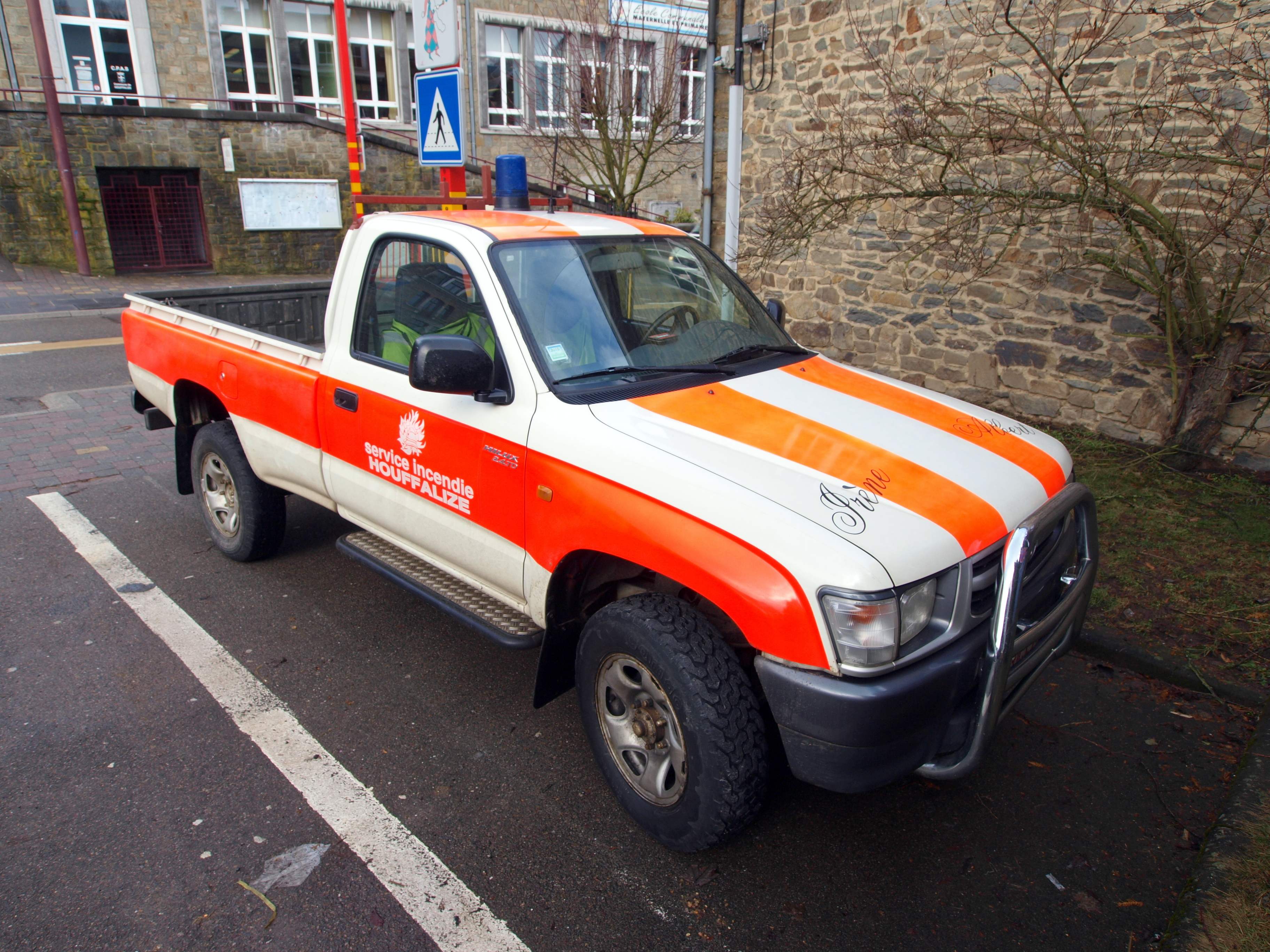 Toyota Hilux 24TD Service Incendie Houffalize, Belgium